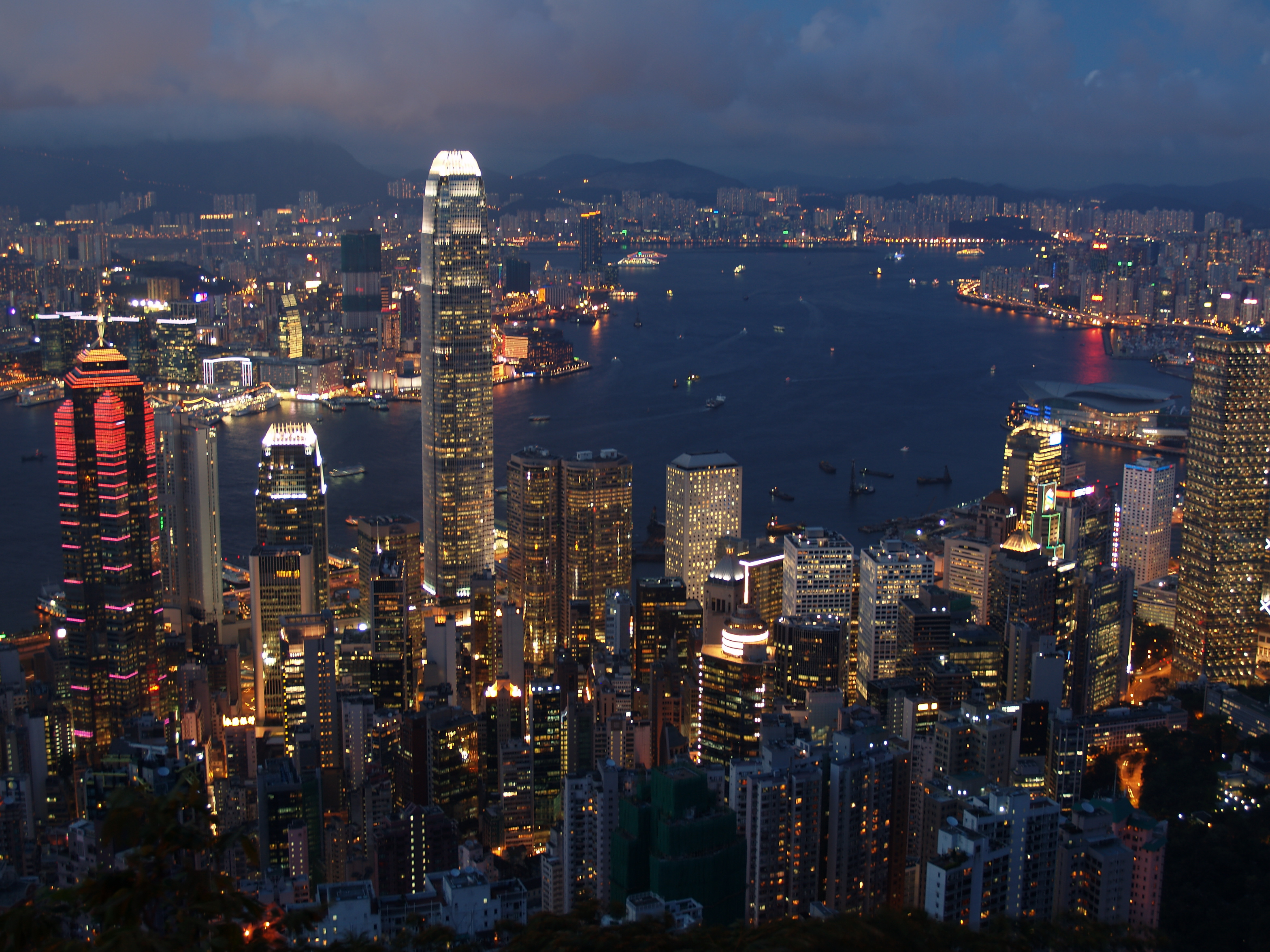 Hong Kong Evening Skyline. Picture taken from the Victoria Peak. Foreground is Hong Kong Central. On the background is Kowloon.